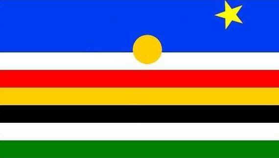 The Shilluk Kingdom (now in South Sudan) have a new flag. A map (below) shown in other page is where the kingdom is located. The flag is formally the work of the former Shilluk, Reth Ayang wat Anei and it was released on September 20, 2011 to replace the version of the Shilluk Flag which had Red, Black and White.